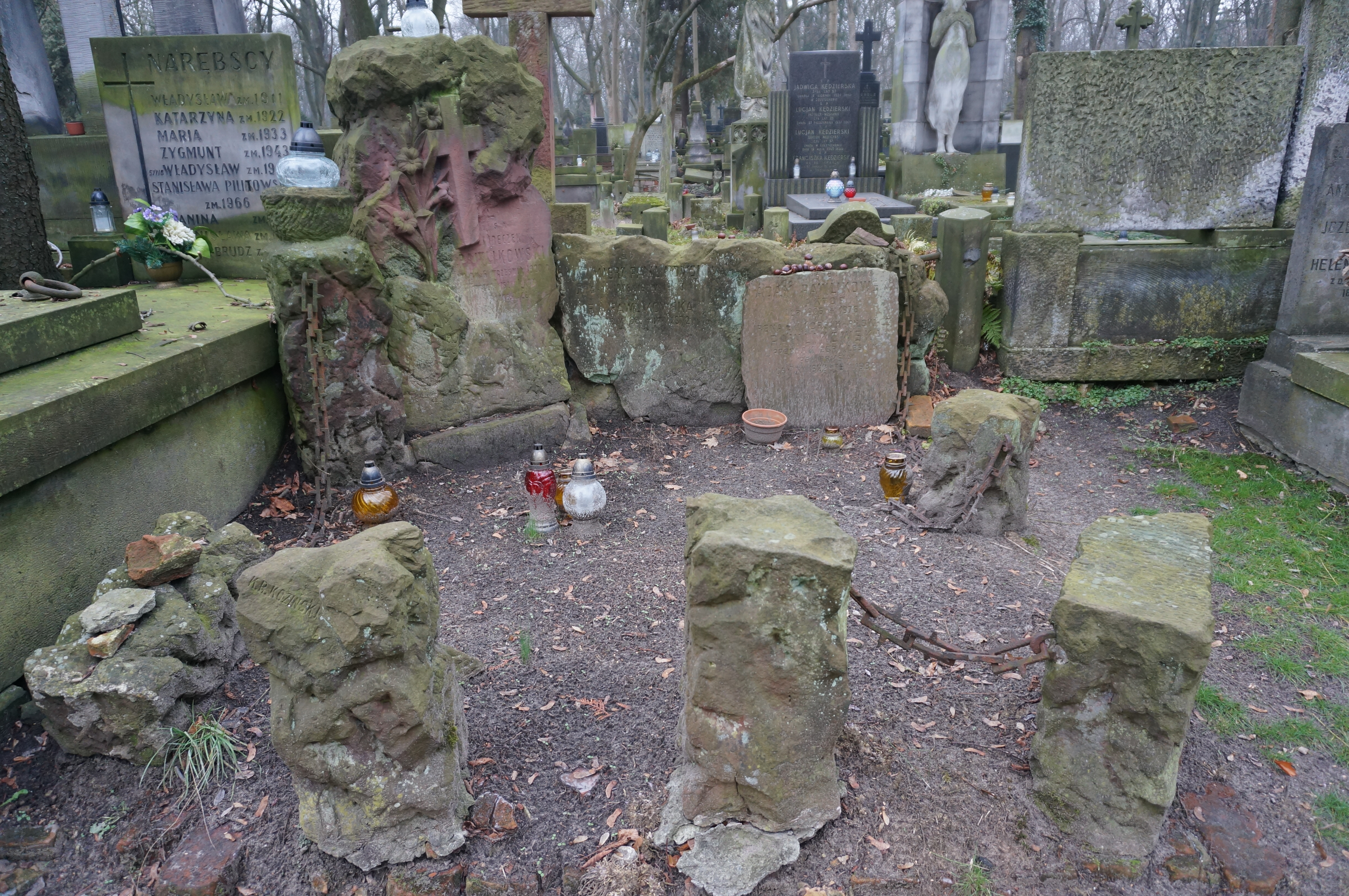 The grave of Adam Pawlikowski at the Powązki Cemetery (section H, row 1, grave 14, 15)